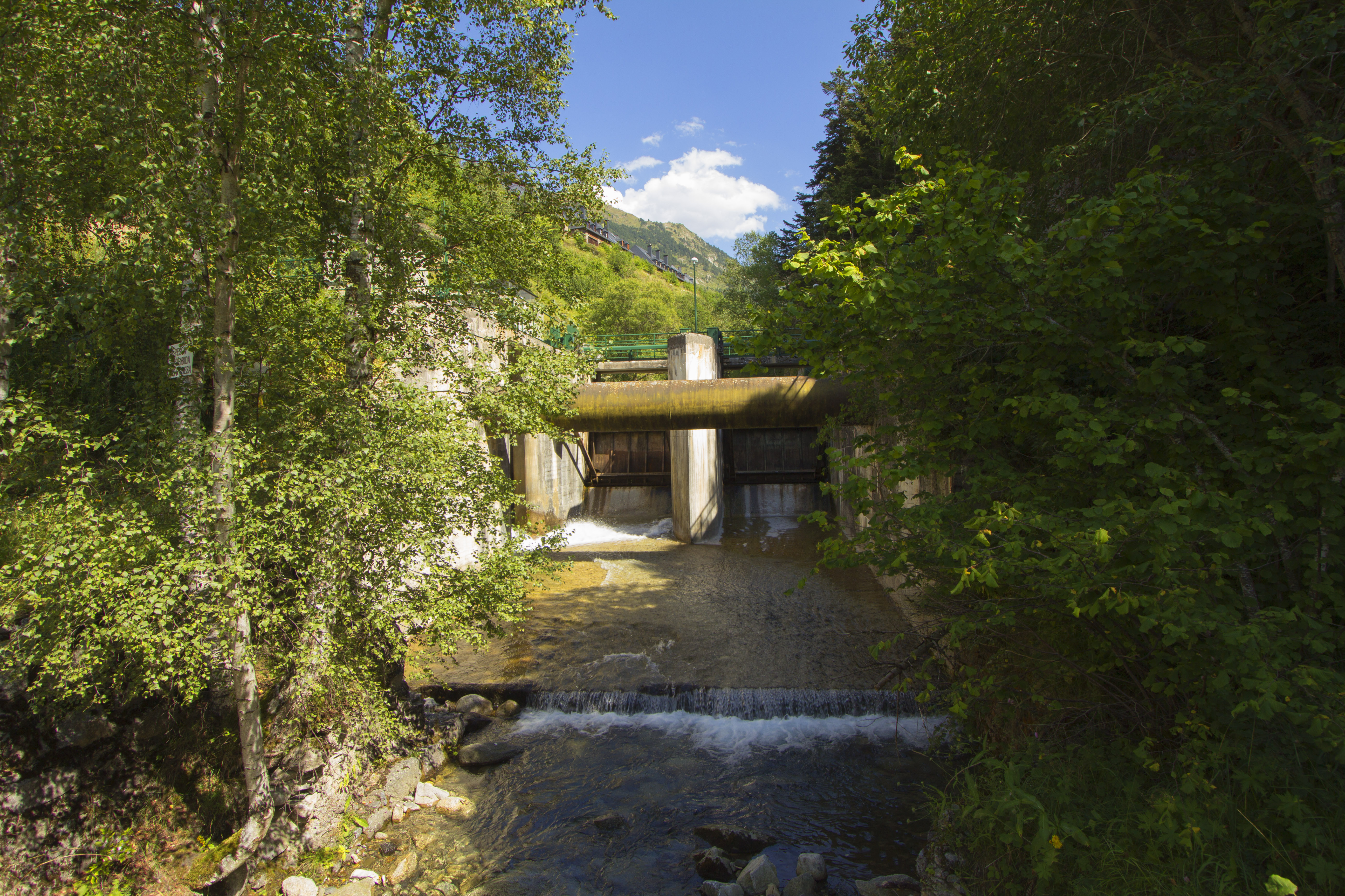 Ruda dam, part of the Arties hydroelectric power plant (Catalan Pyrenees)